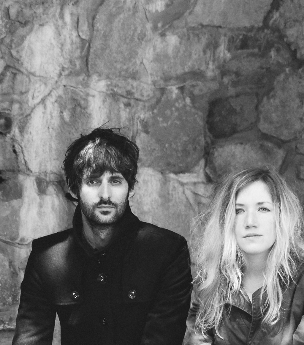 Thom Donovan with Rossi (2012)